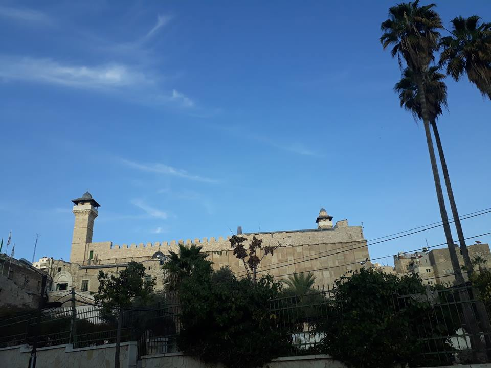 The Ibrahimi Mosque is located in the old town of Hebron in the south of the West Bank in Palestine, and is similar in its construction to Al-Aqsa Mosque